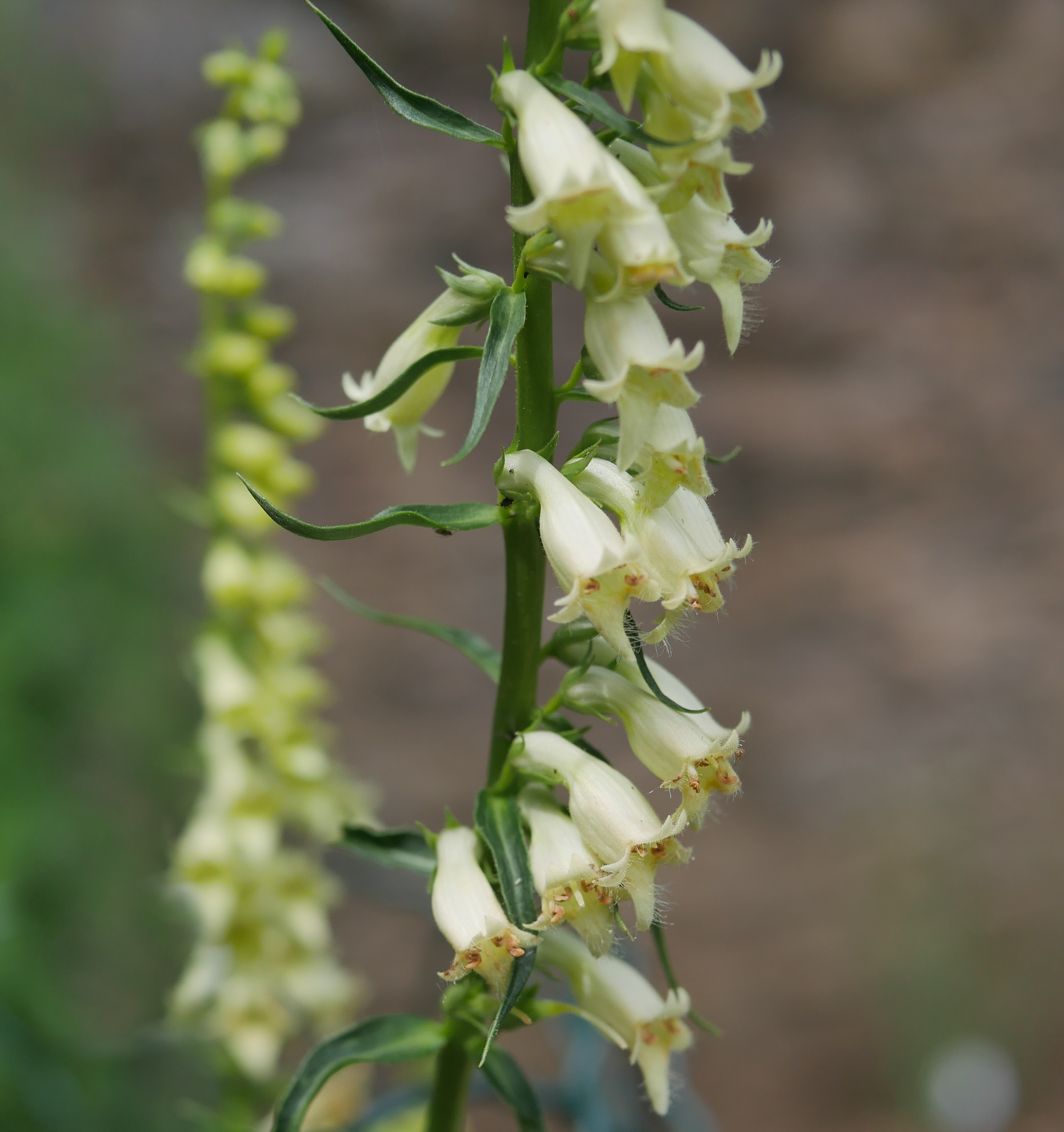 Digitalis lutea, the straw foxglove or small yellow foxglove, Open air museum Roscheider Hof, Konz, Germany, Rhineland-Palatinate, herb garden.